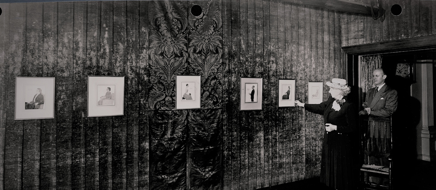 Amy at the exhibition of her portraits at the Vose Gallery in Boston in May, 1949.